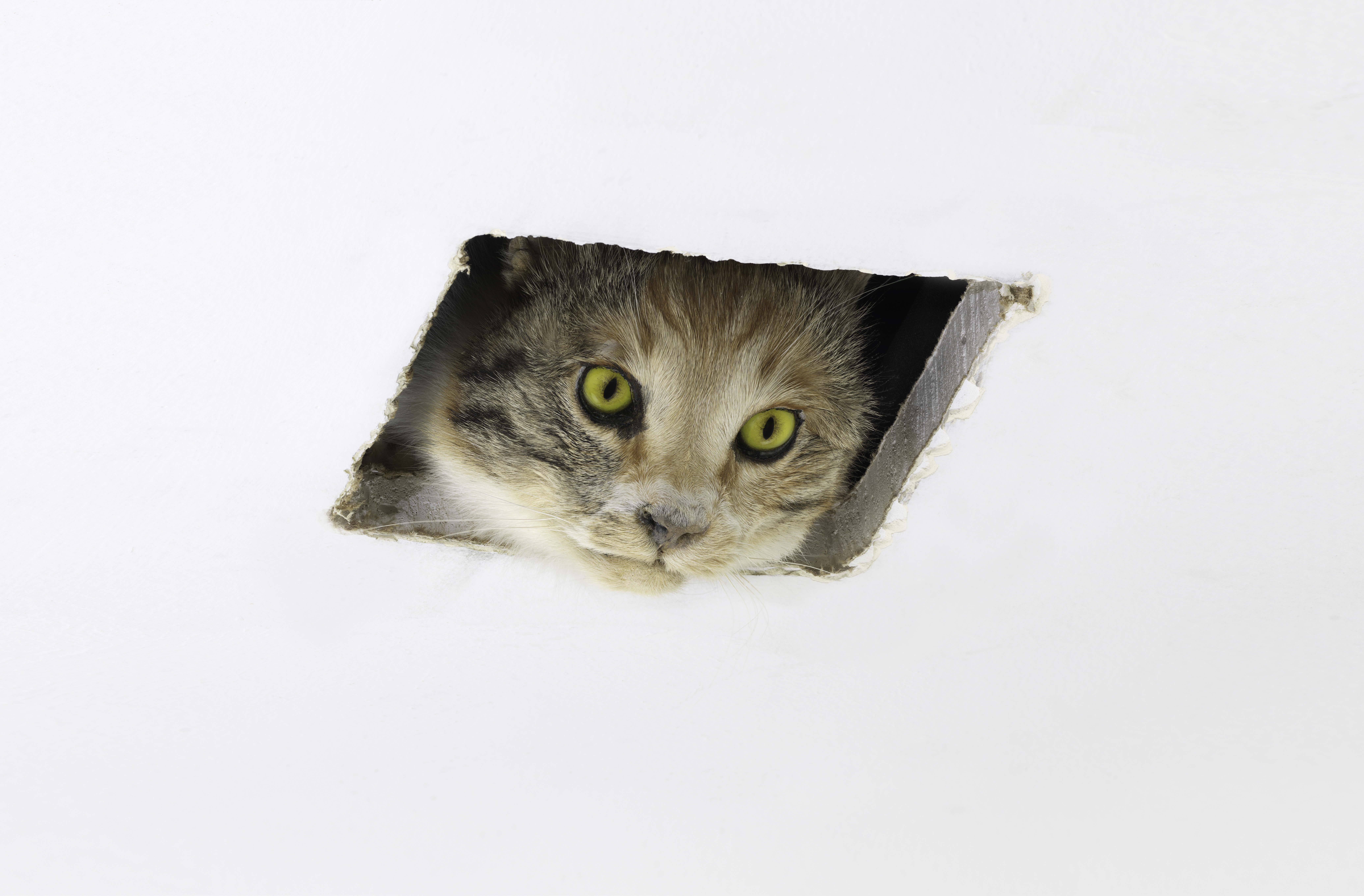 Eva & Franco Mattes, Ceiling Cat, 2016. Taxidermy cat (56 x 13 x 20 cm) and custom made hole (13 x 13 cm) Collection of the San Francisco Museum of Modern Art (SFMOMA)